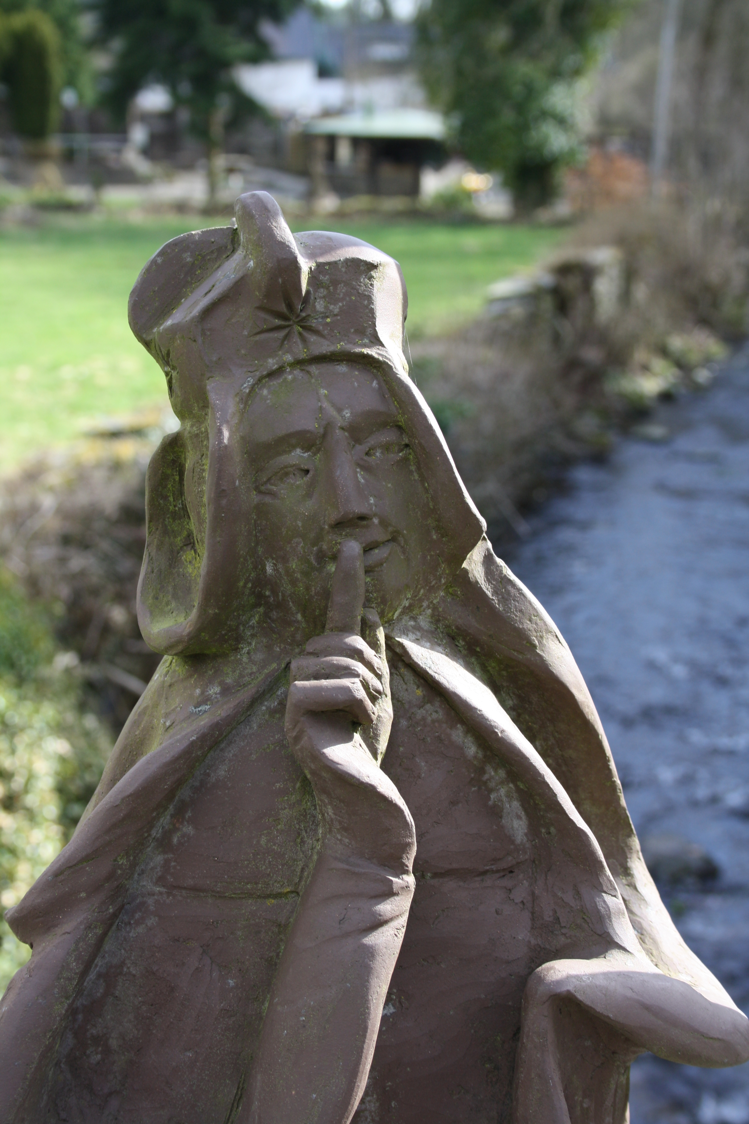 Statue of St. Nepomuk on a bridge at Hürtgenwald-Simonskall (Germany)